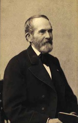 Christian Ferdinand Christensen (1805-1883), Danish theatre painter